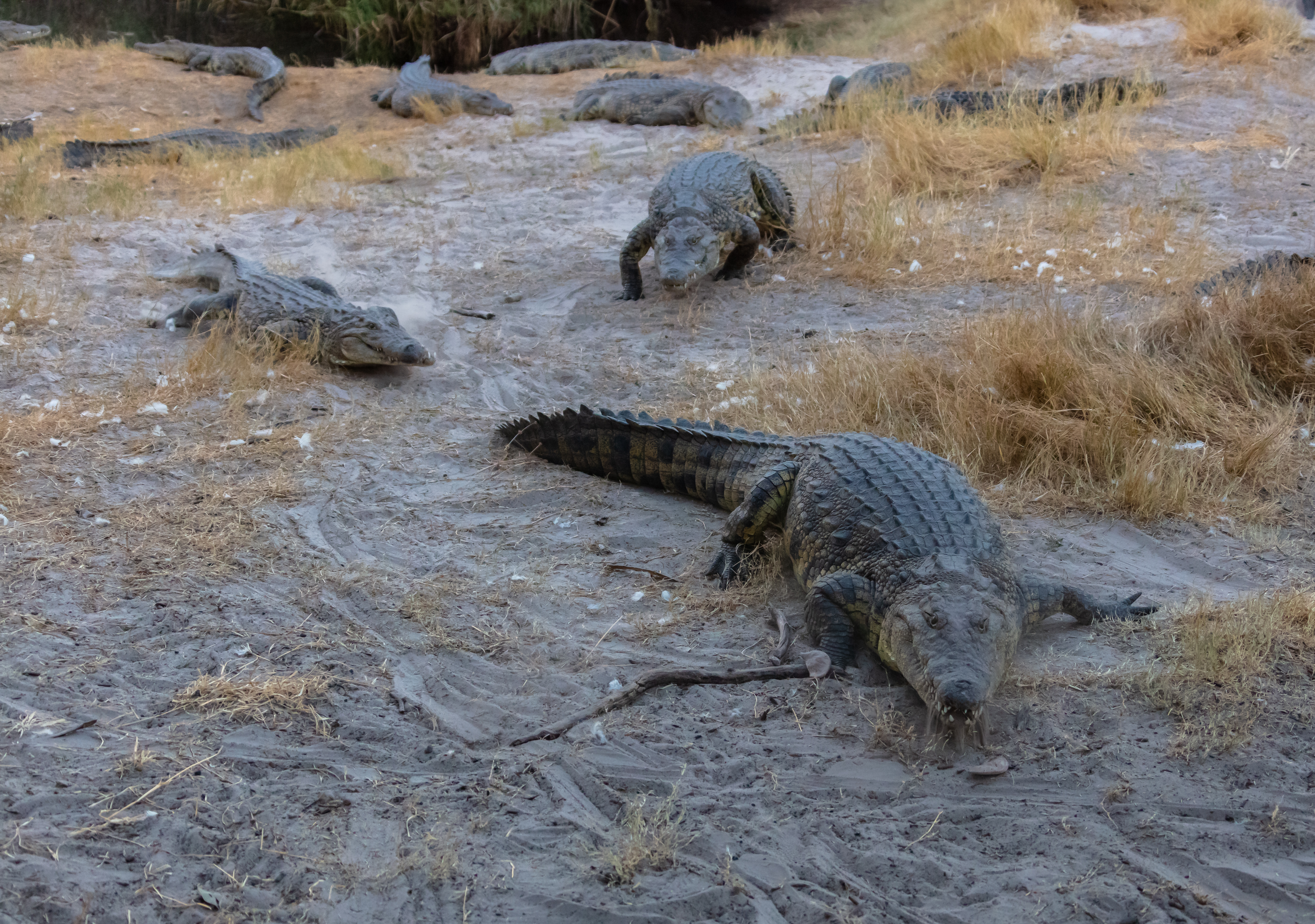 Crocodrile Farm, Maun, Botswana